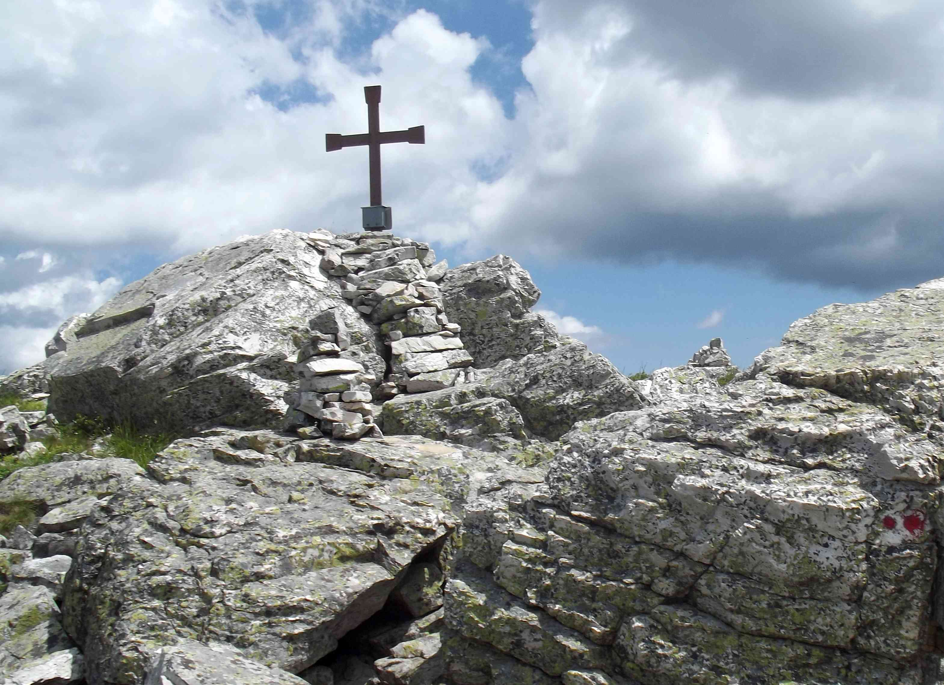 Monte Dubasso (Ligurian prealps, CN, Italy): summit cross